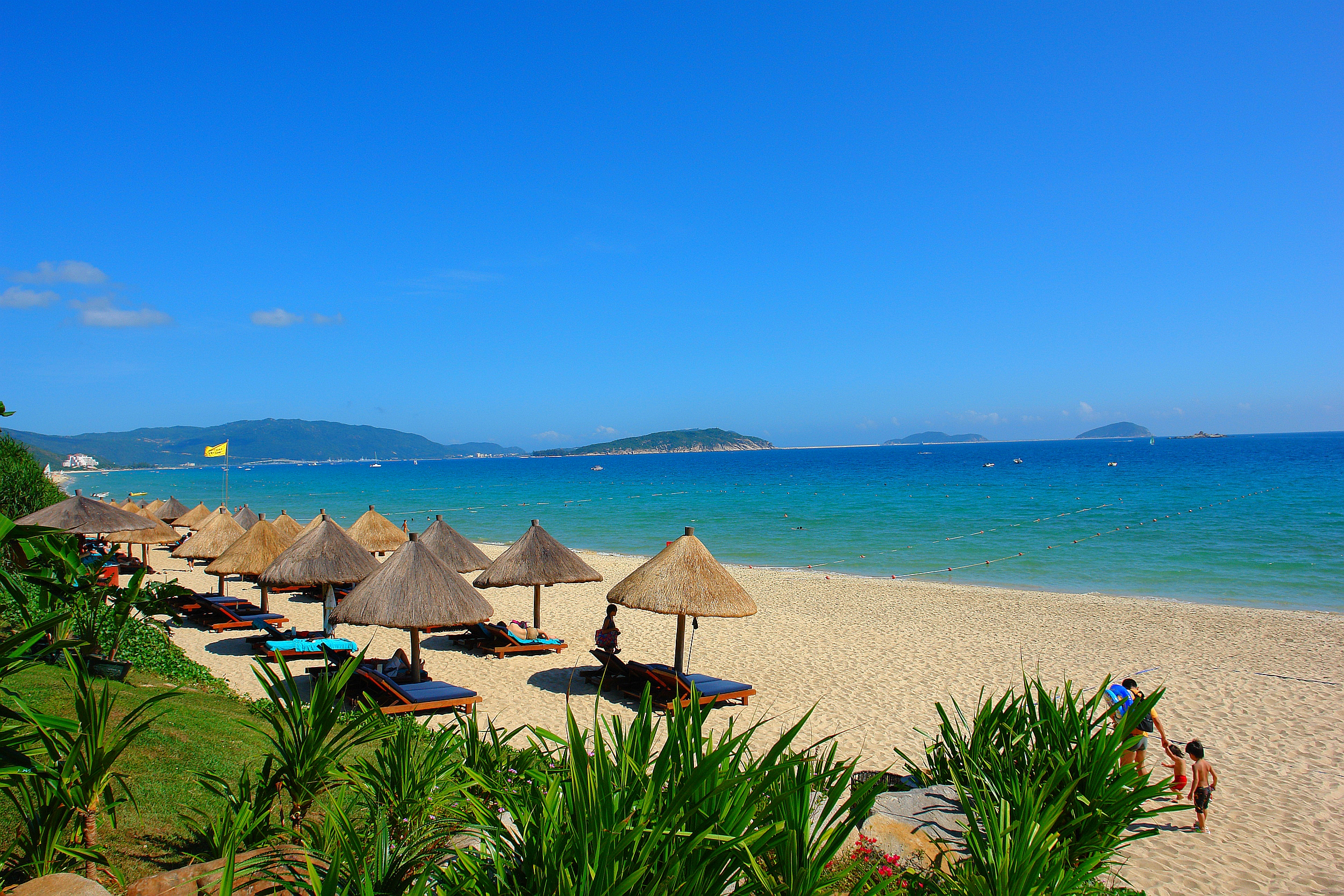 Sanya Sun Photo Original photo author Dale Preston Beach in Sanya, Hainan province, China